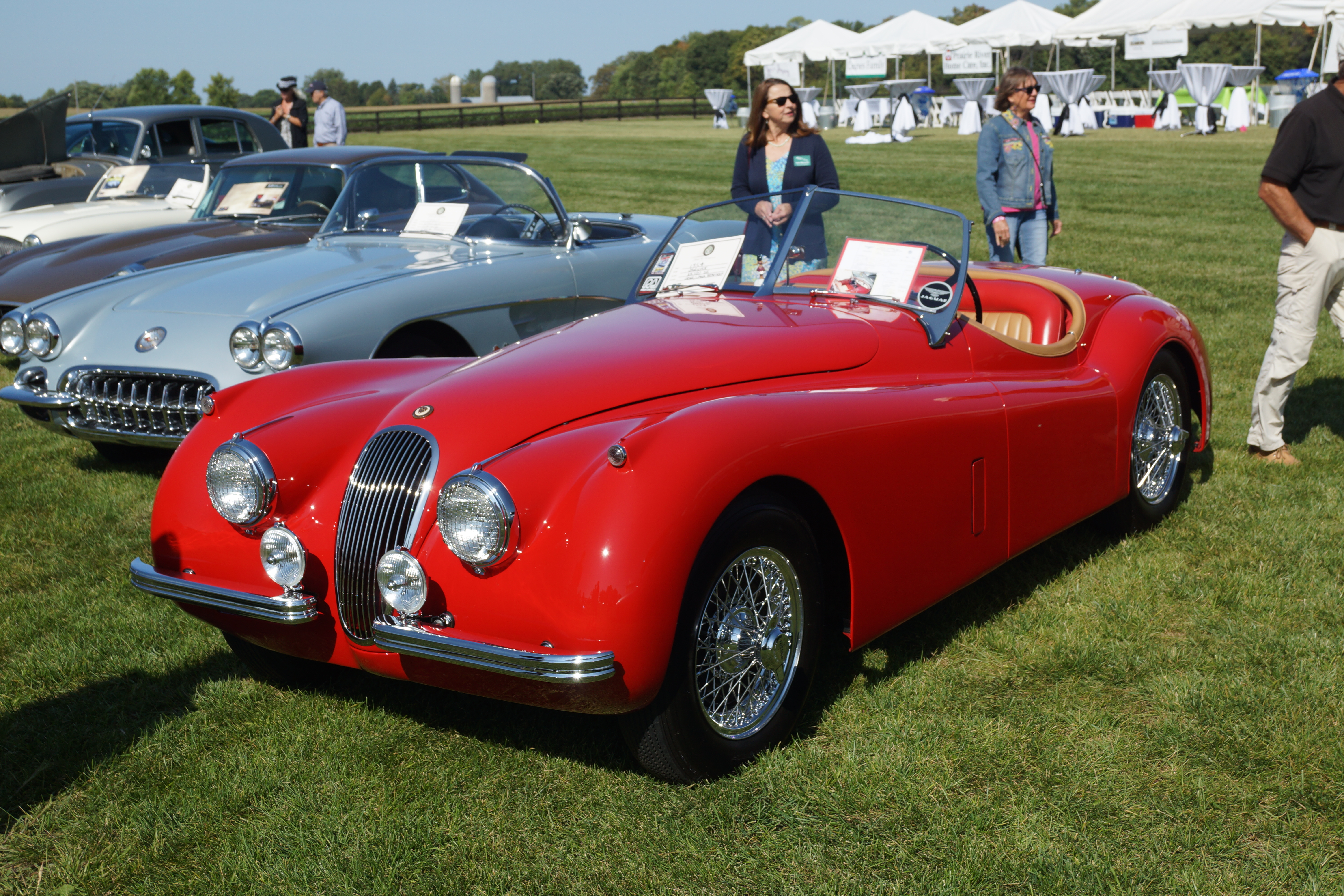 2017 Freedom Farm Polo Fundraiser and Horses & Horsepower Car Show BlackBerg Ranch Watertown, Minnesota September 9, 2017 ----- Click here for more car pictures at my Flickr site. Or here for my Car Crazy Tumblr site. Or on Twitter @DVS1mn.